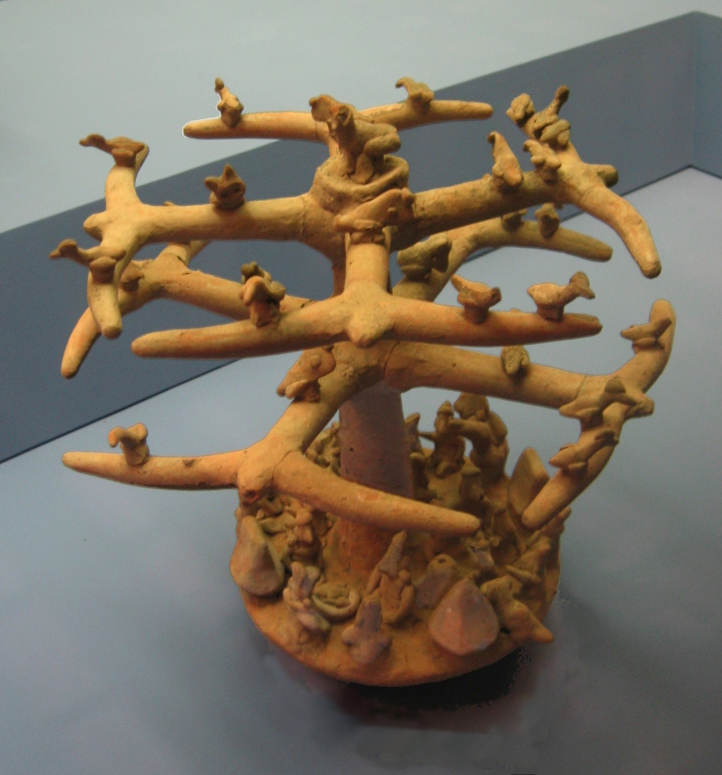 A Nayarit ceramic from the Western Mexico shaft tomb tradition. Height: 28 cm (11 in).